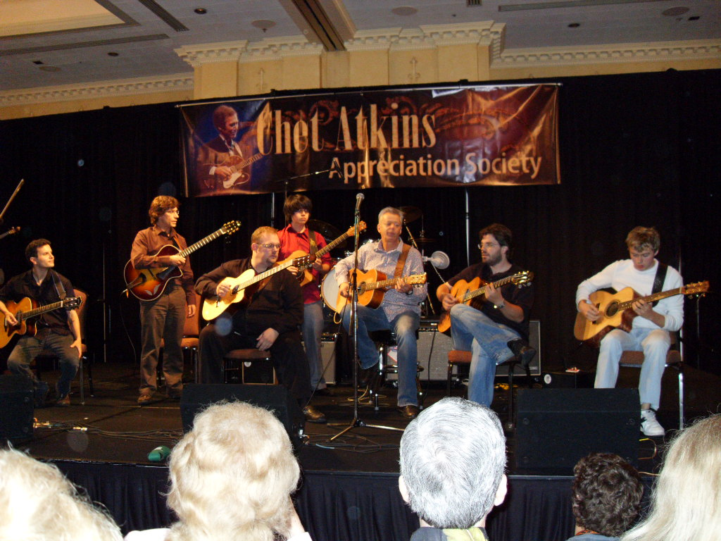 Josho Stephan - Tommy Emmanuel - Richard Smith - Frank Vignola